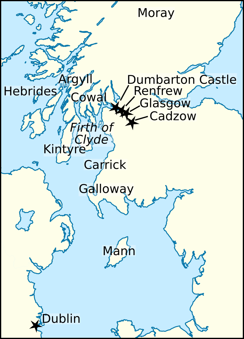 Map showing some locations mentioned in the English Wikipedia article: Battle of Renfrew.